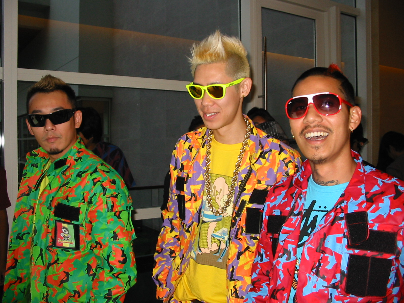 Bhuddha Bless at It's my MTV Party